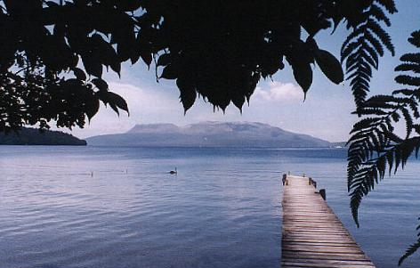 Mount Tarawera seen from across Lake Tarawera, on New Zealand's North Island